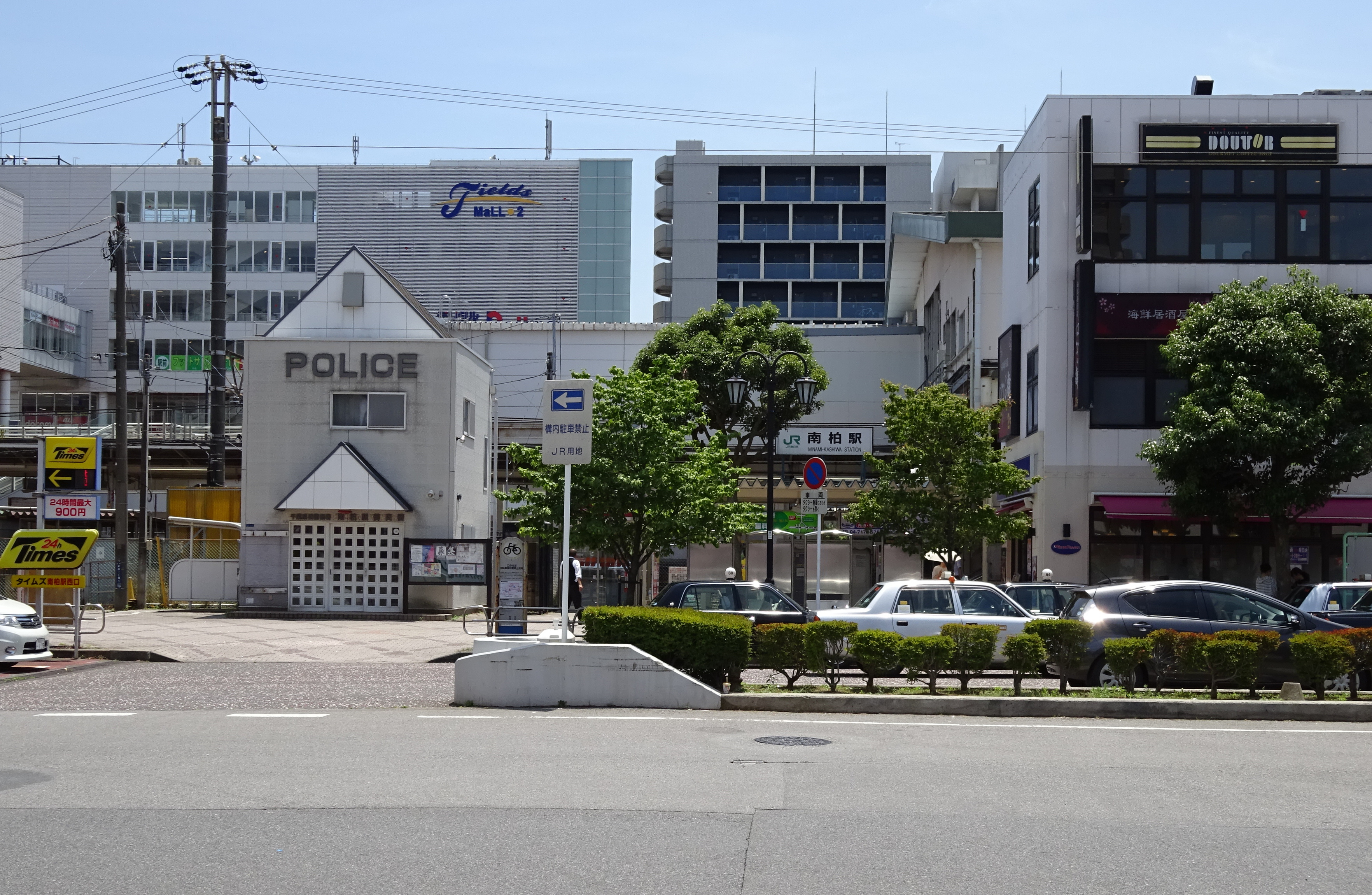 West entrance of Minami-Kashiwa Station